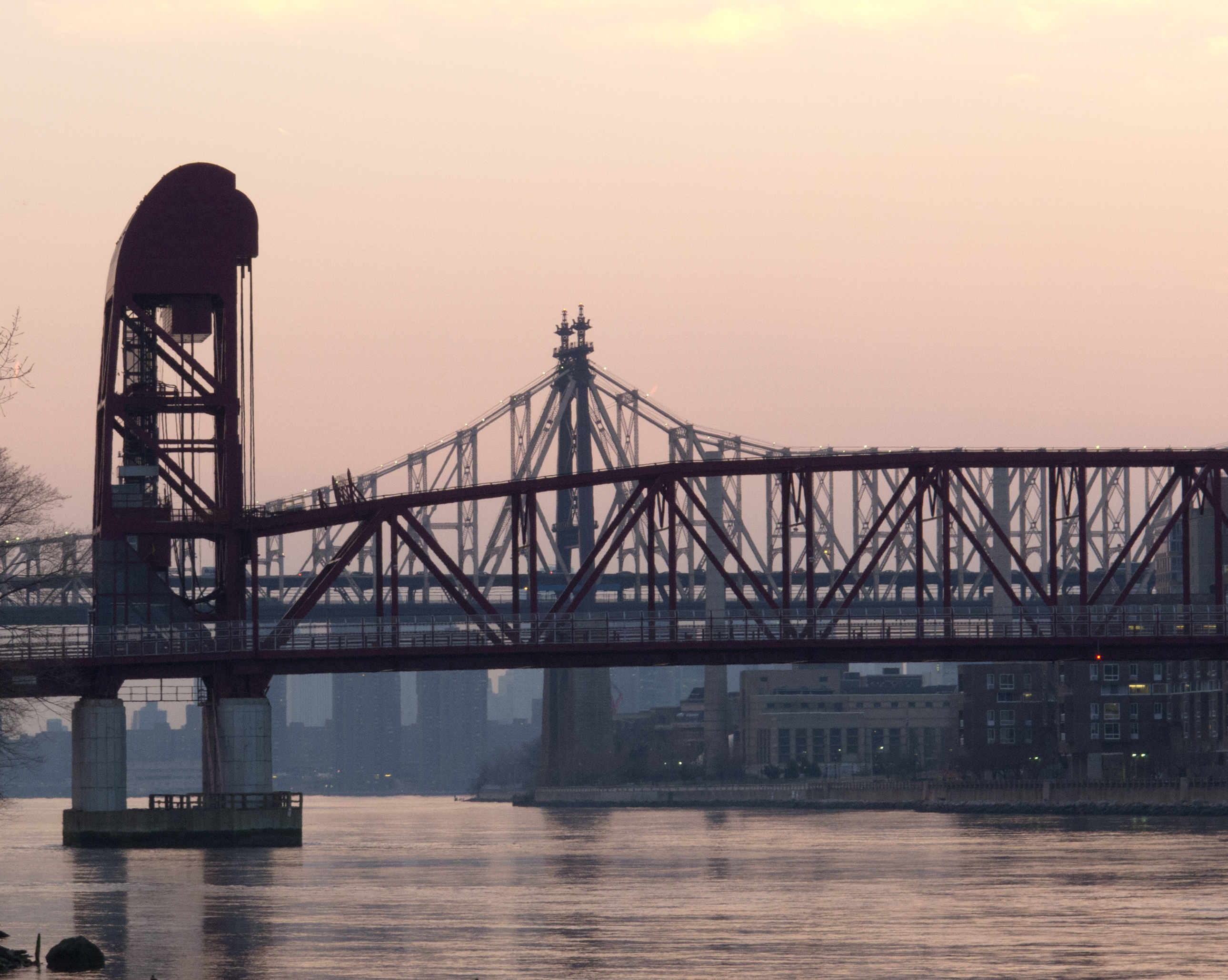 Roosevelt Island Bridge from Rainey Park in Astoria.